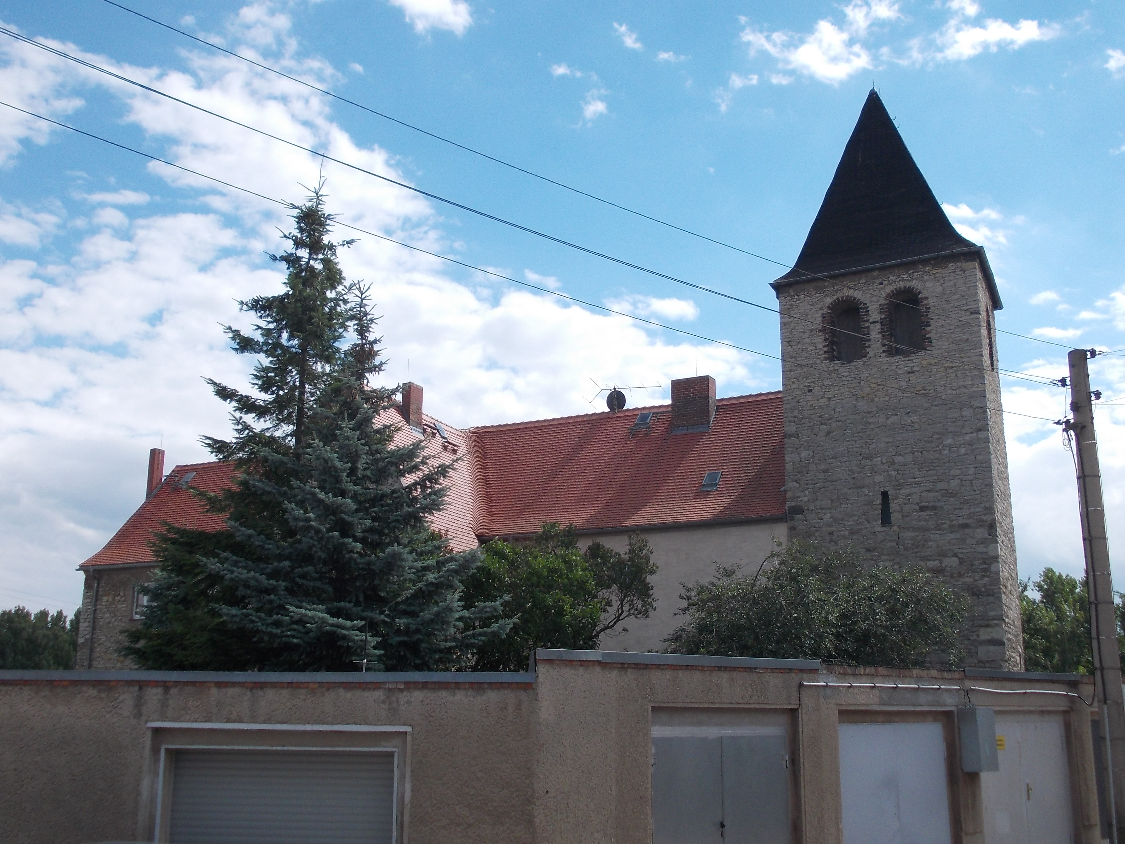 Hospital church in Nienburg/Saale (district: Salzlandkreis, Saxony-Anhalt)